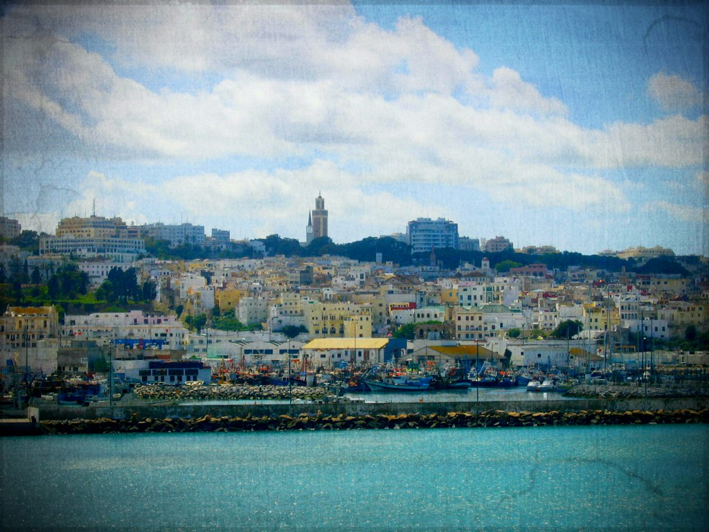 View of Tangier, Morocco, from the ferry. Textures: combination of Pixlr textures Published on Flickr in the album "Morocco".